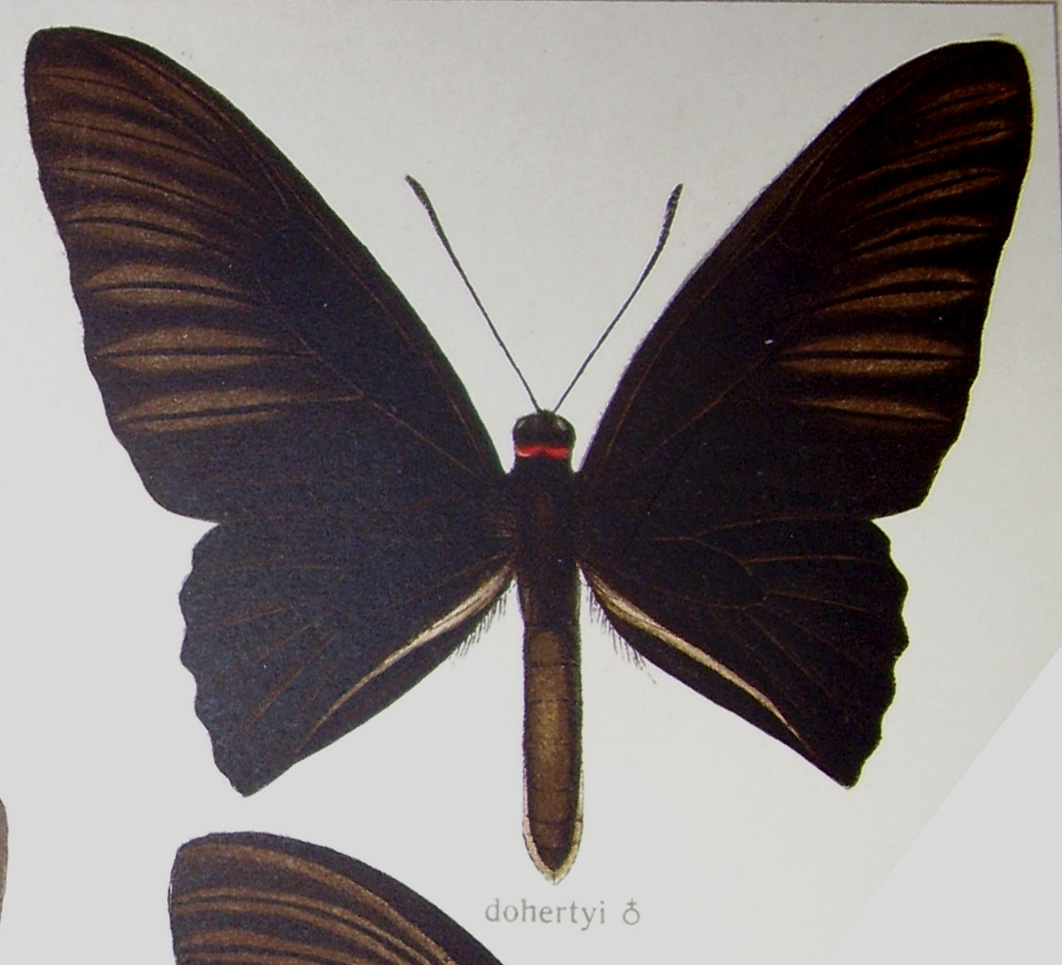 Talaud Black Birdwing, male, upperwing